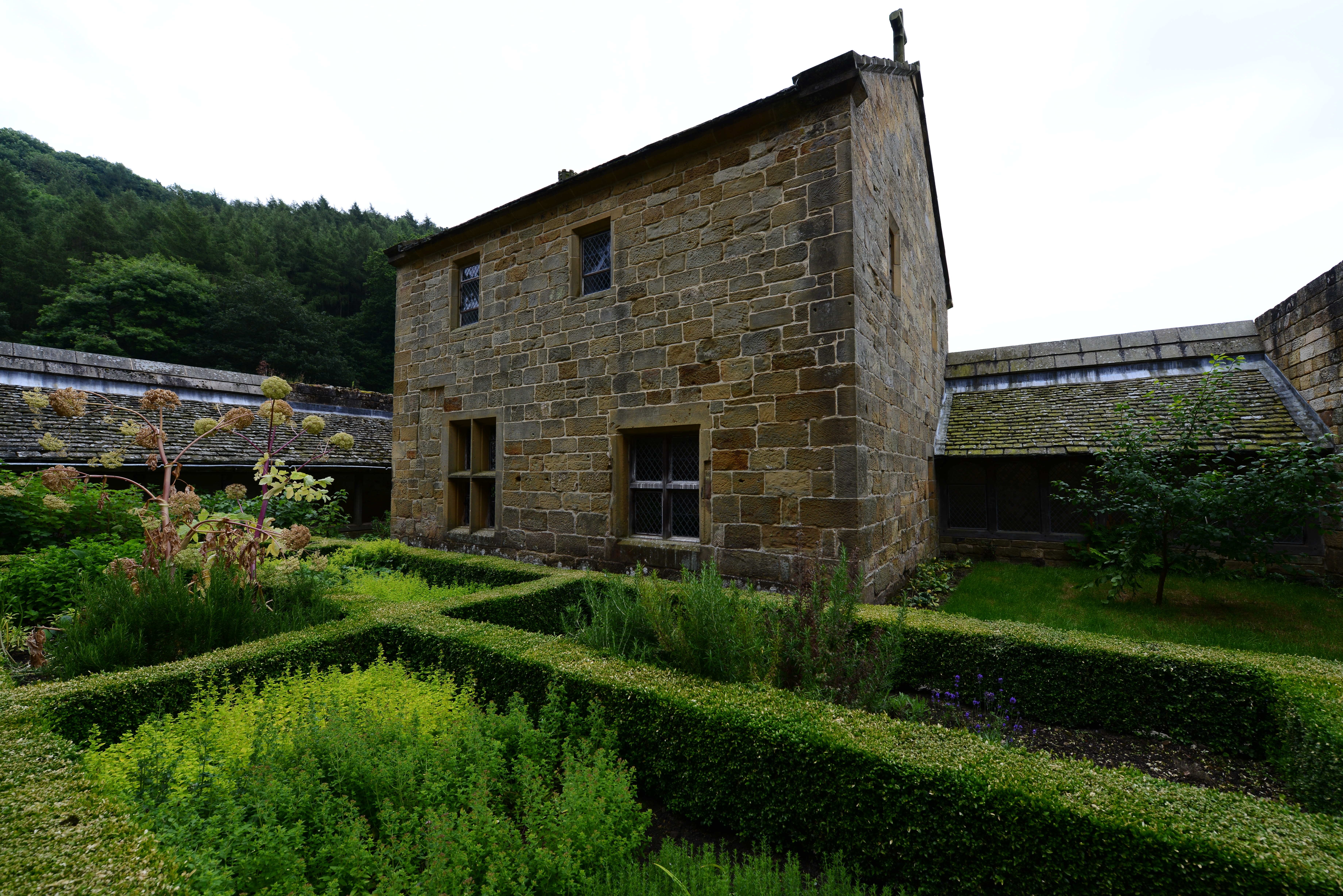 Photo by Michael Garlick